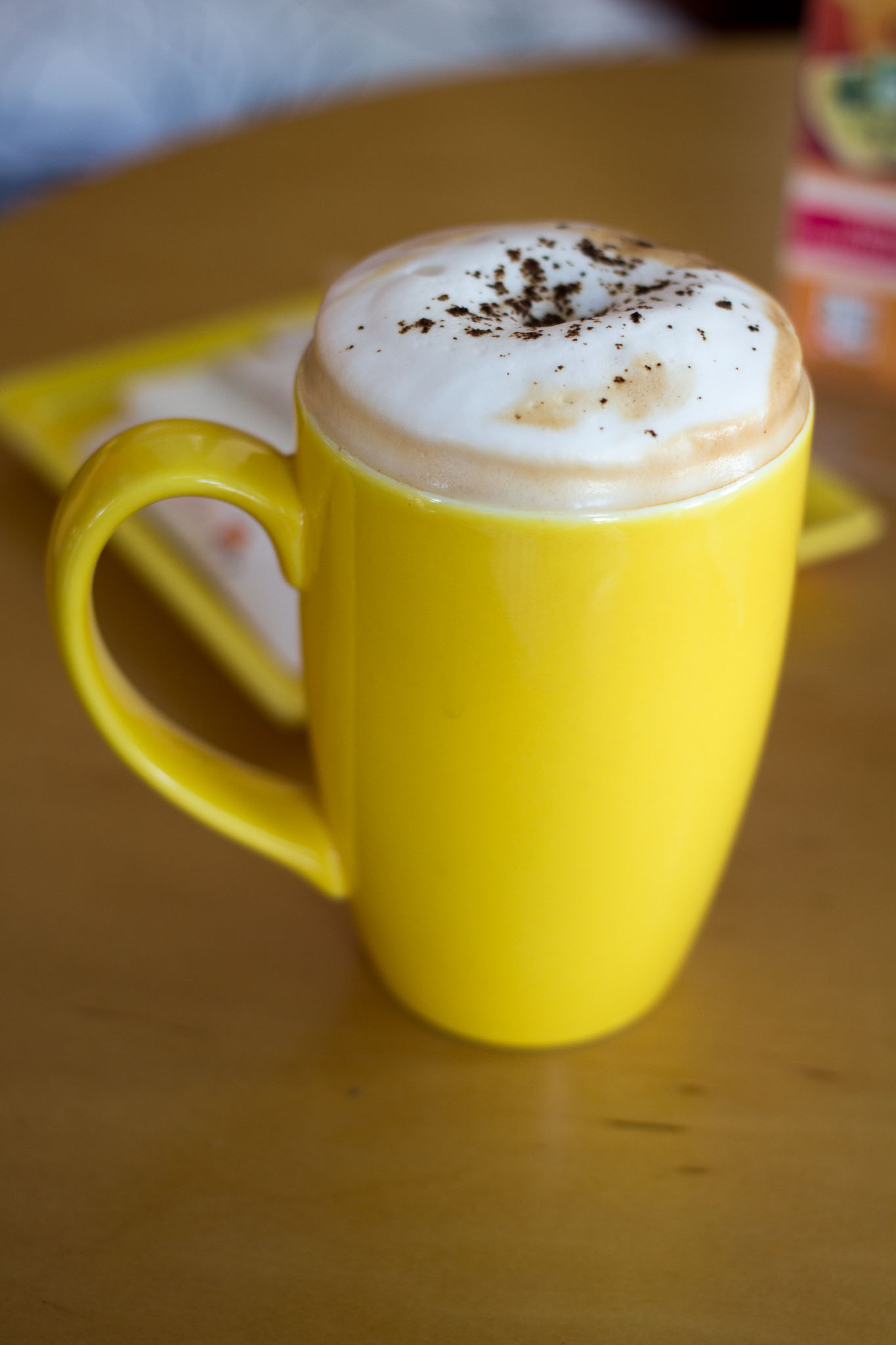 Camelcino - a cappuccino made with camel milk, in Dubai